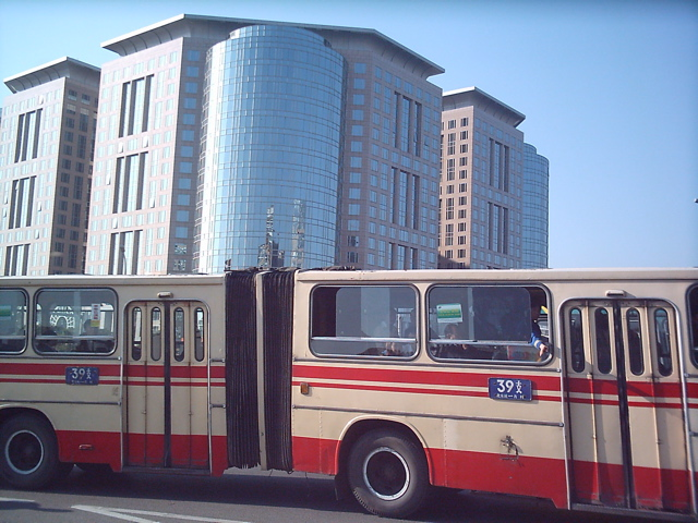 Beijing Public Bus (older type). DF08 (English) 2004 image.